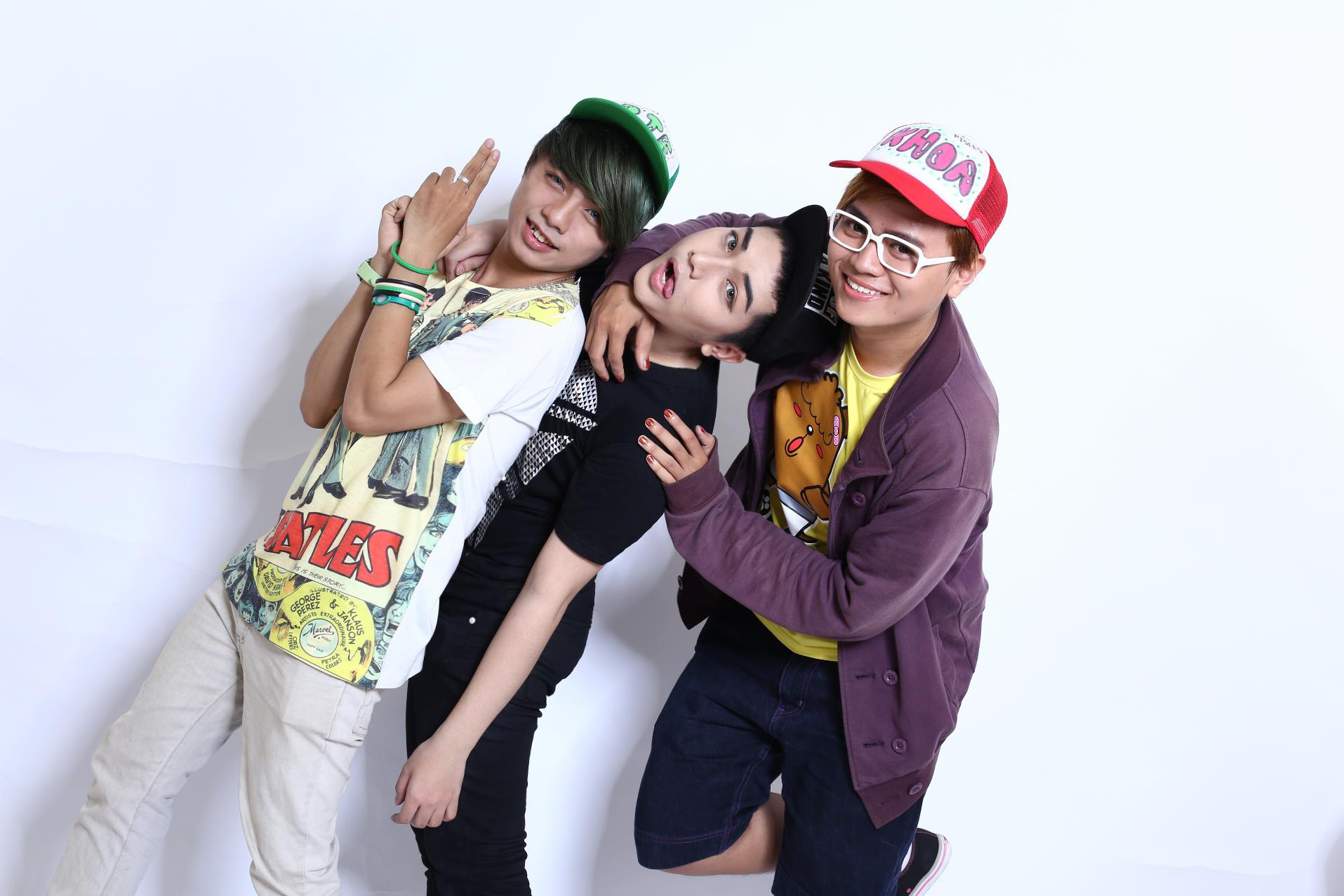 Promotional photo for My Best Gay Friends